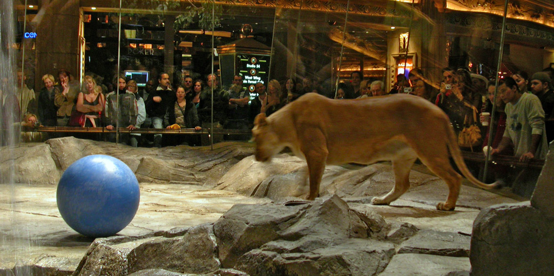 Picture taken by user izx, January 2006. The Lion Habitat at the MGM Grand Las Vegas.